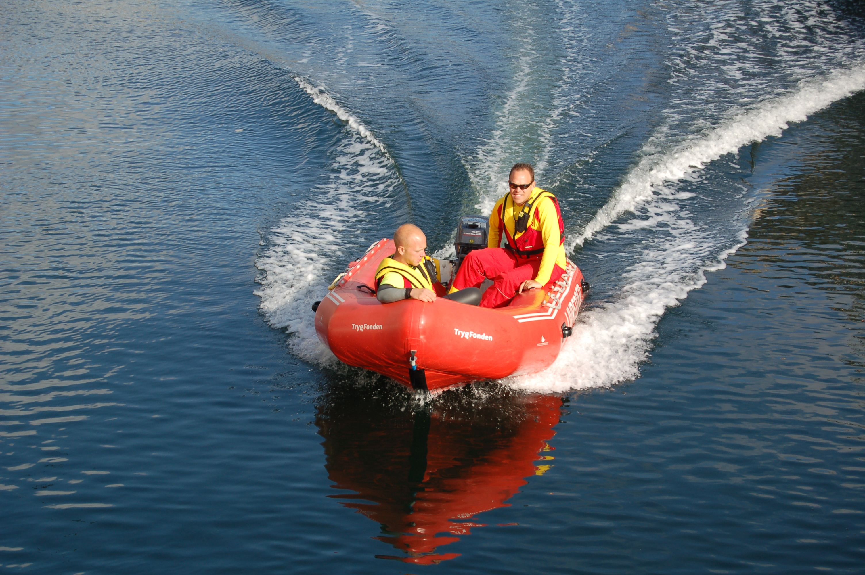 Life guards in boat, FINA 10K marathon swimming World Cup 2009, Copenhagen